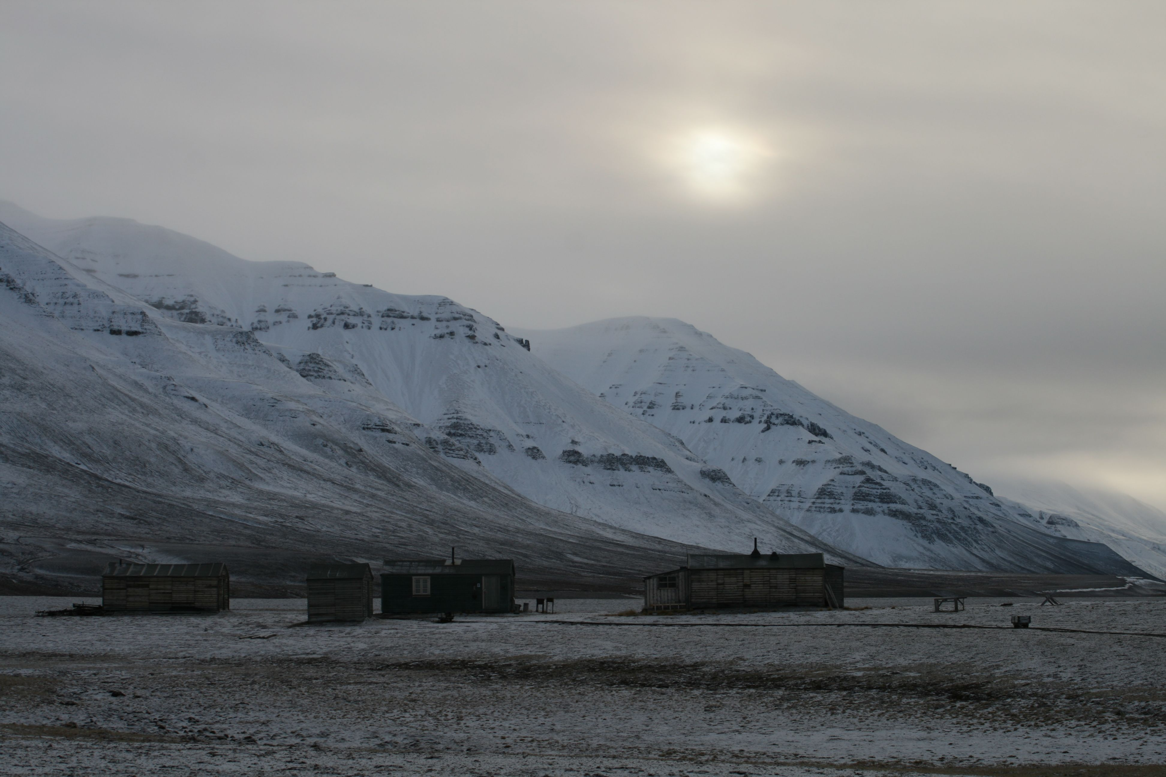 The Brucebyen settlement on Spitsbergen, Svalbard